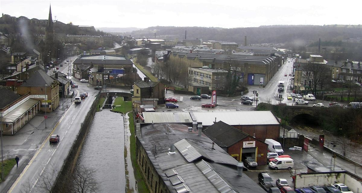 View of Longroyd Bridge, Huddersfield. Taken Whilst passing over Valley by train